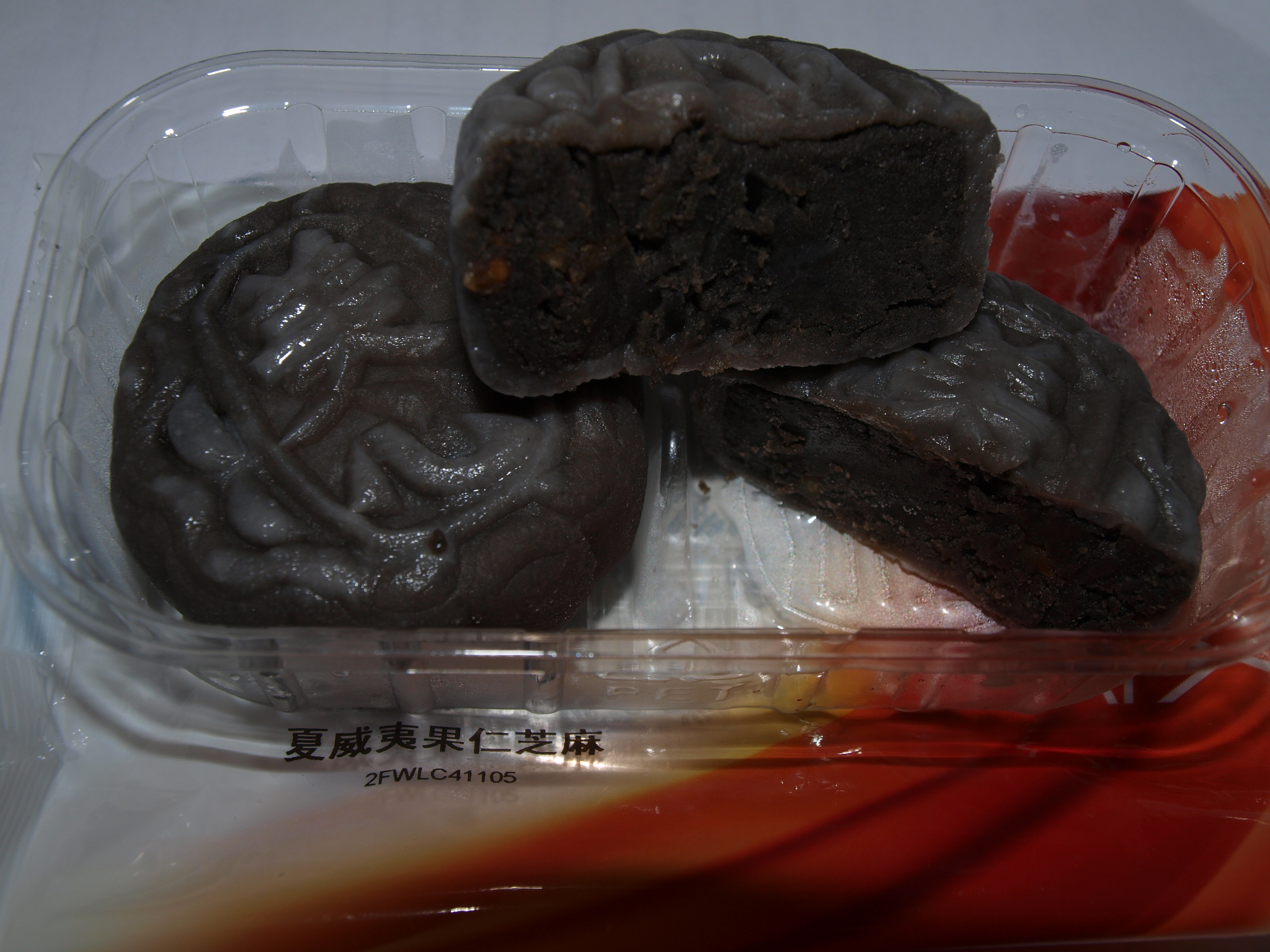 This is a pack of snowy mooncakes in Hong Kong. The flavor is sesame with macadamia nuts.